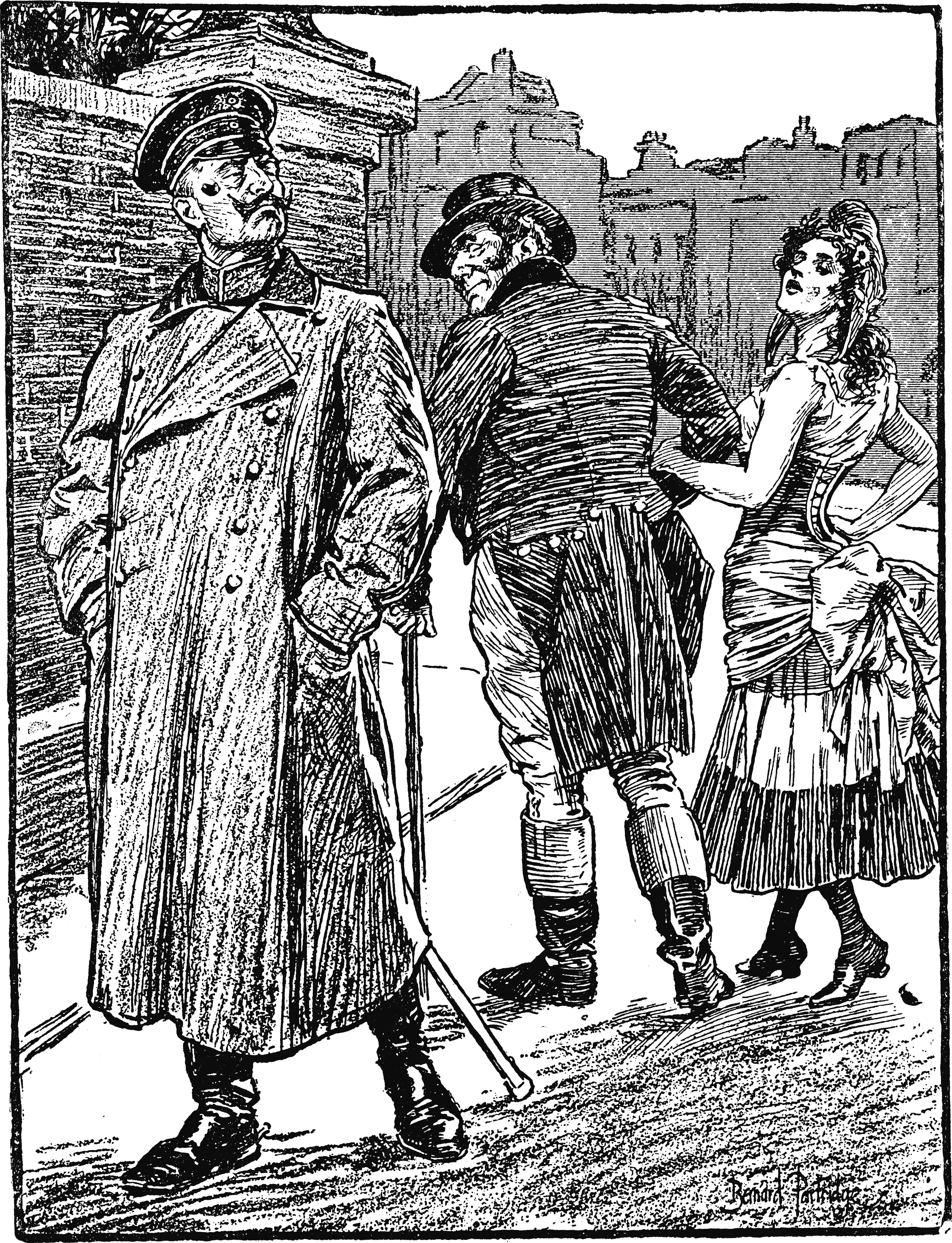 A Punch cartoon by John Bernard Partridge depicting the rather sour German point of view on the British-French "Entente Cordiale" of 1904 -- John Bull walks off with the trollop France (in her scandalously short tricolor skirt, whose red and blue colors are indicated by the conventions of heraldic "hatching"), while Germany pretends not to care.